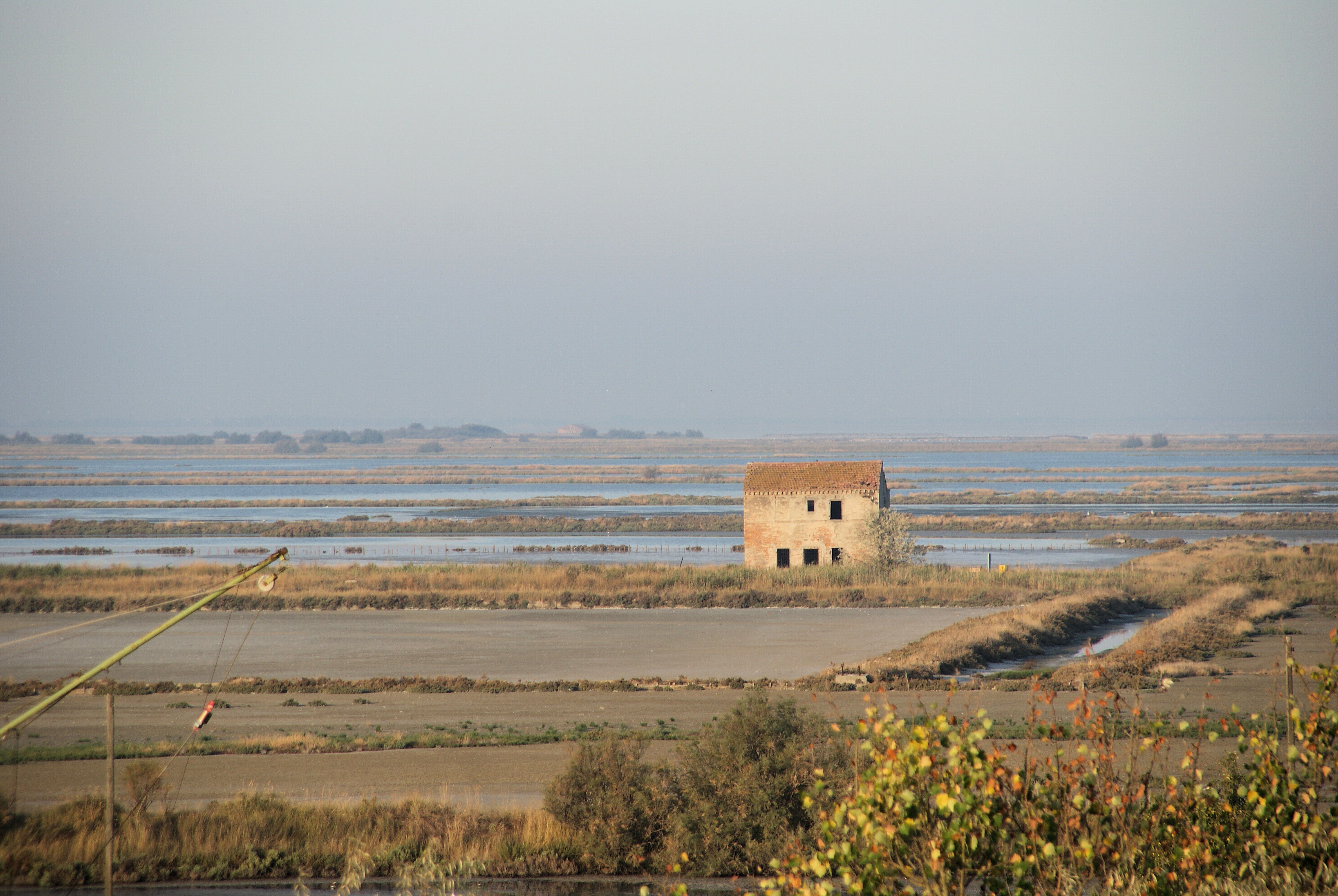 Salina di Commactio